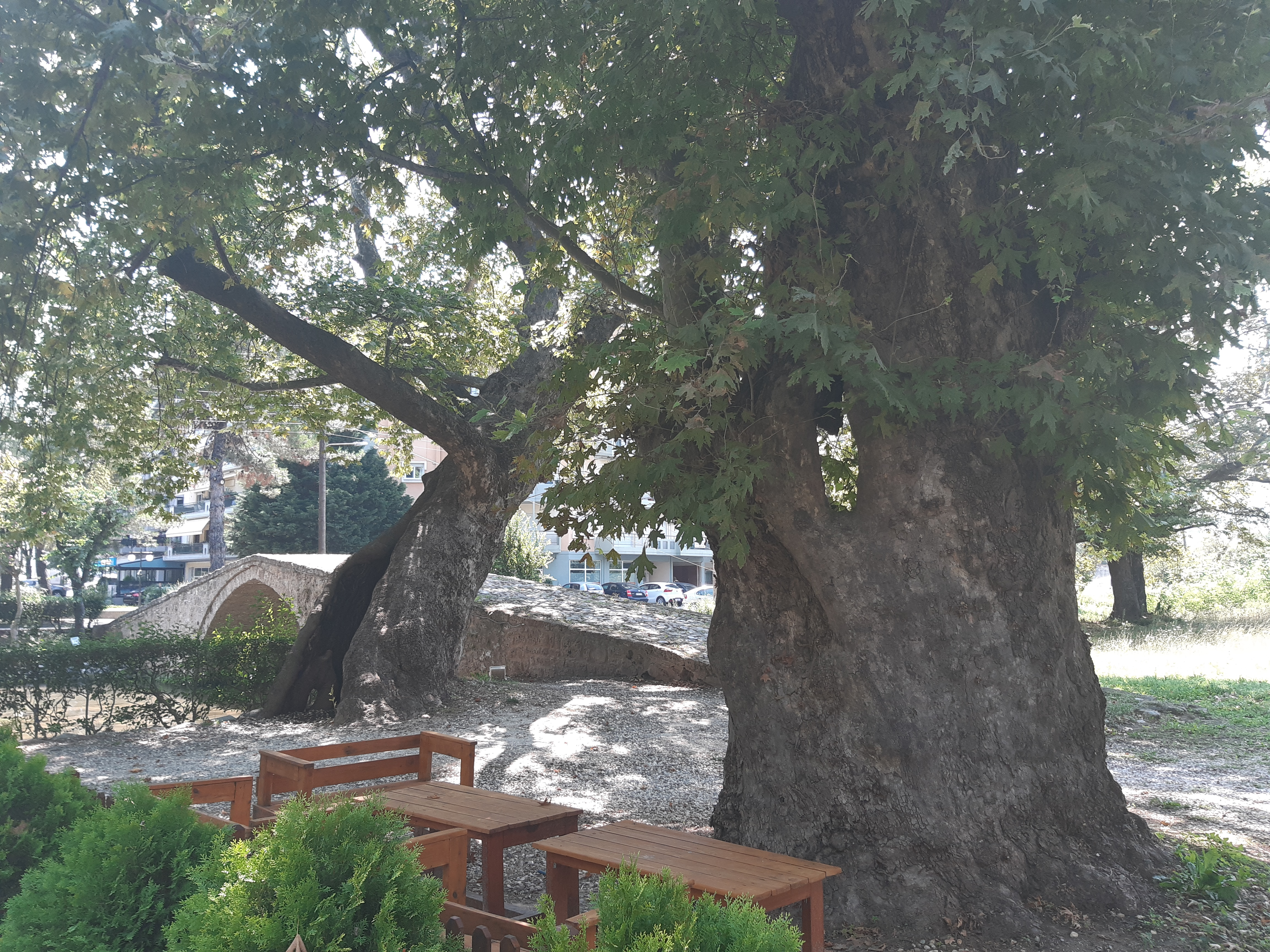 Kioupri, Edessa